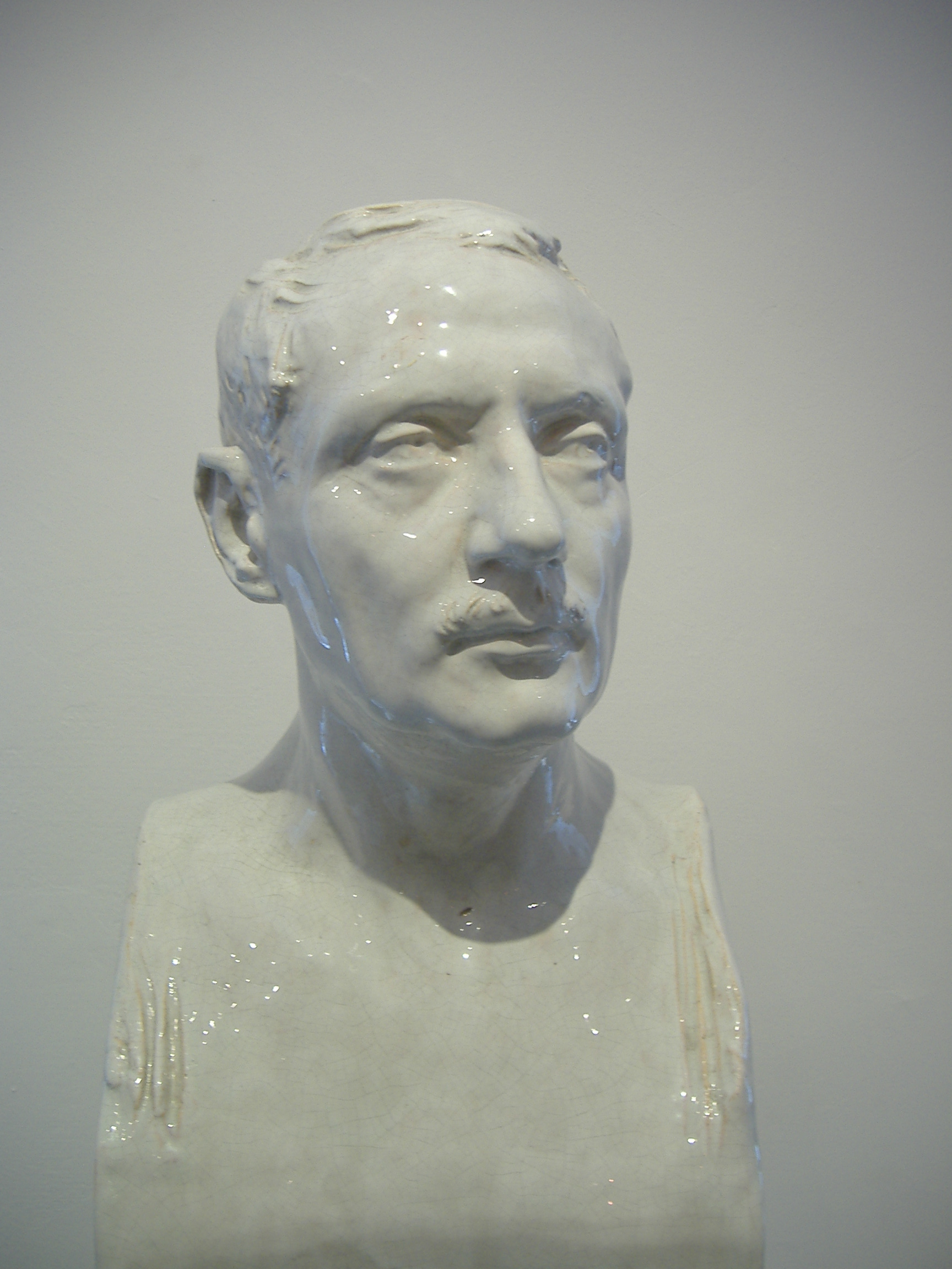 Statue of Miklós Zsolnay, from the famous porcelain manufacture company, in Pécs, Hungary.